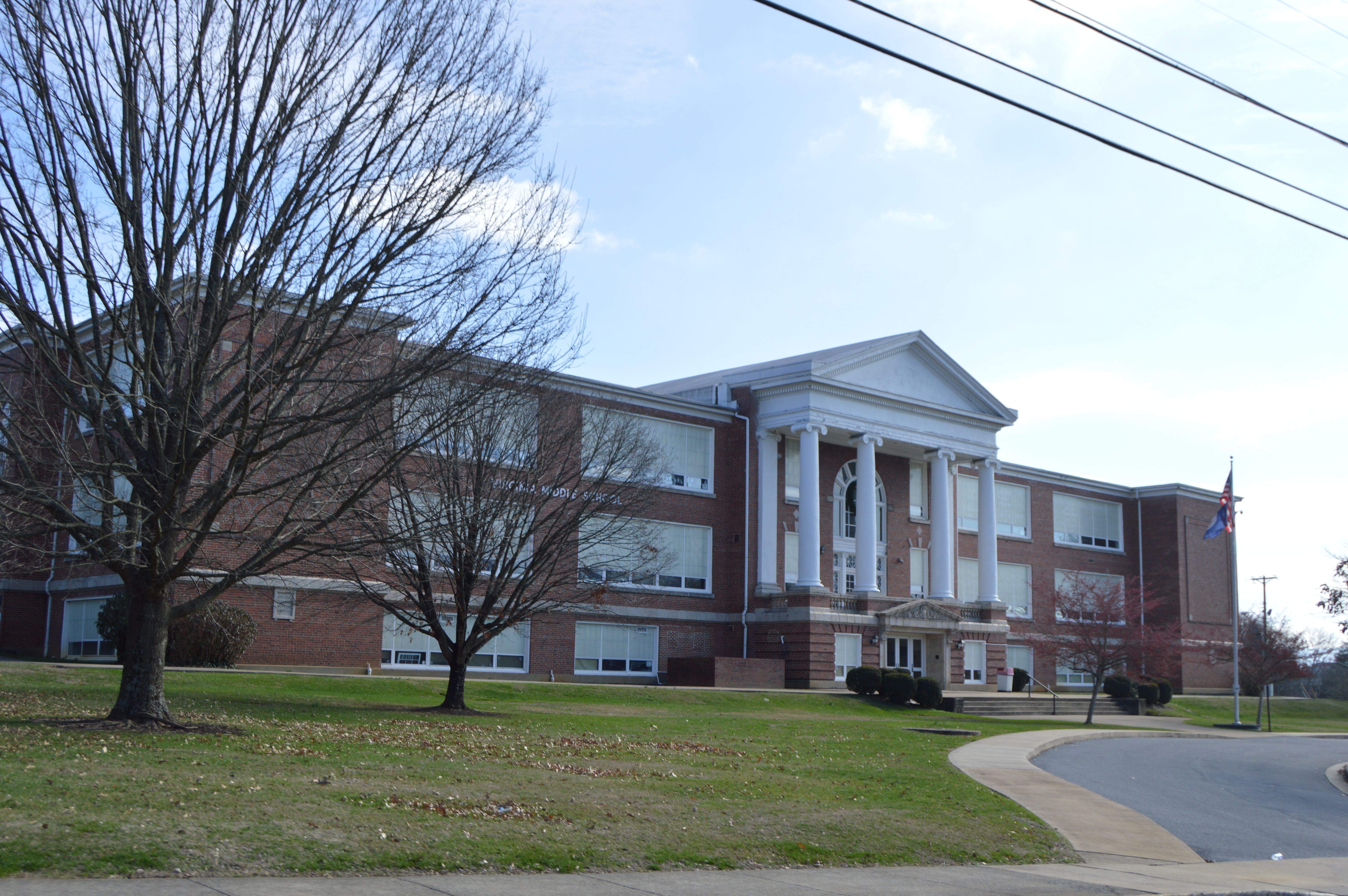 Front of Virginia Middle School (previously occupied by Virginia High School, located at 501 Piedmont Avenue in Bristol, Virginia, United States. Built in 1914, it is listed on the National Register of Historic Places.